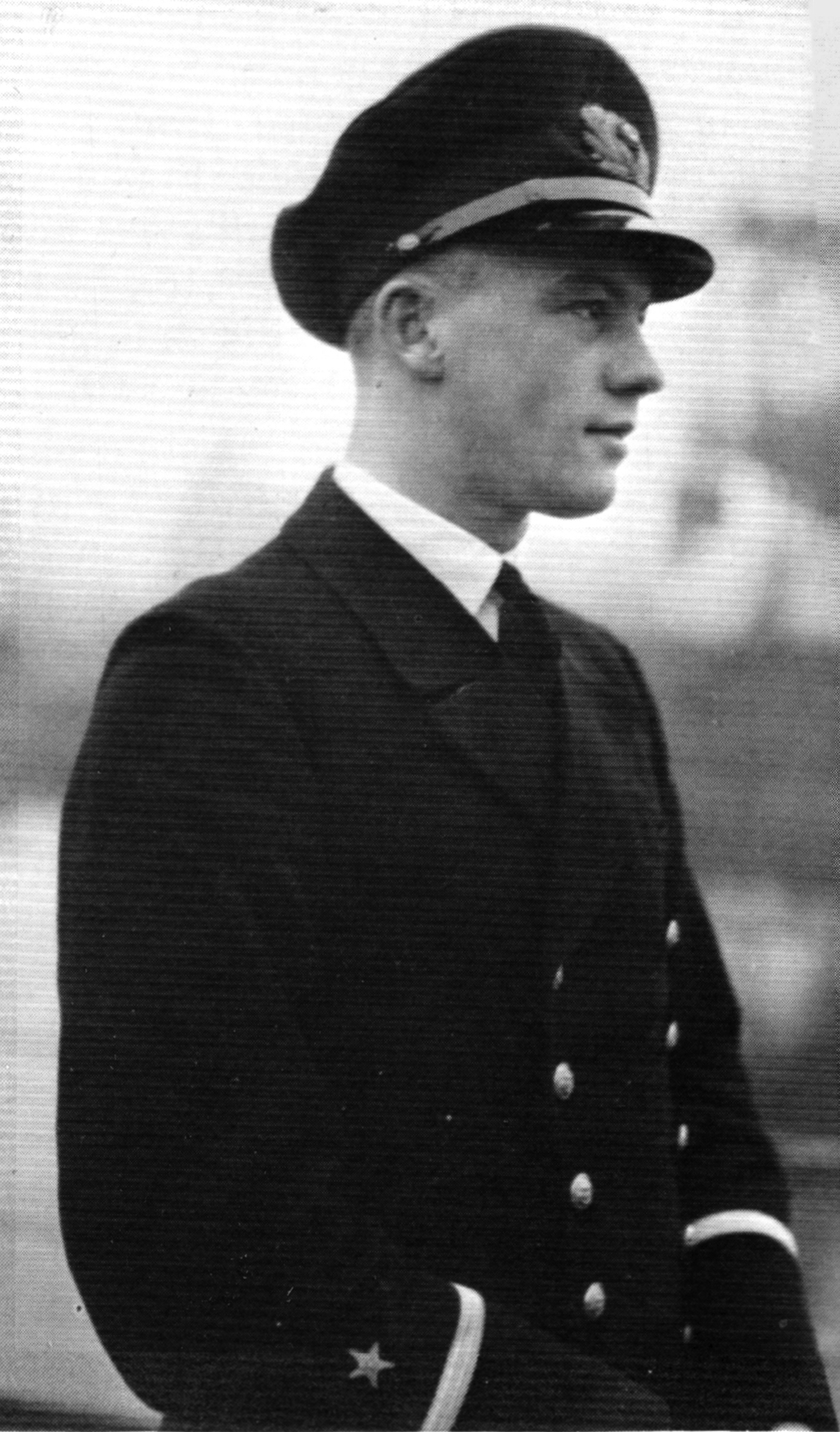 As Lietnant zur See aboard the light cruiser Konigsberg in 1934. He served as range-finder officer in the Konigsberg and in her sister ship Karlsruhe, thus behinning a career in gunnery.